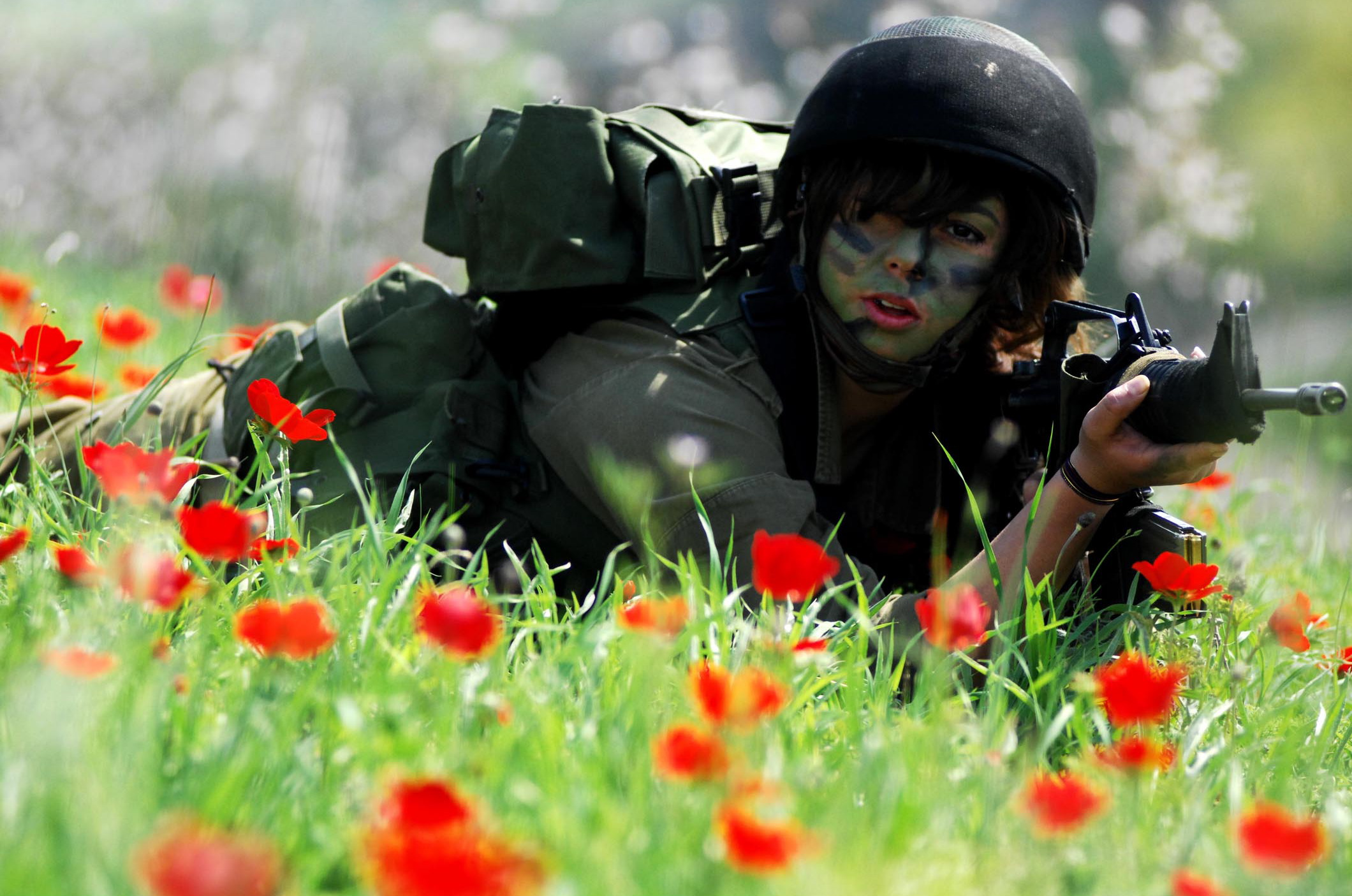 Female and male combat soldiers of the Home Front Command's Search and Rescue Unit receive combat training. Featured as photo of the day on September 14, 2011. The Israel Defense Forces Facebook page The Israel Defense Forces blog Follow us on Twitter